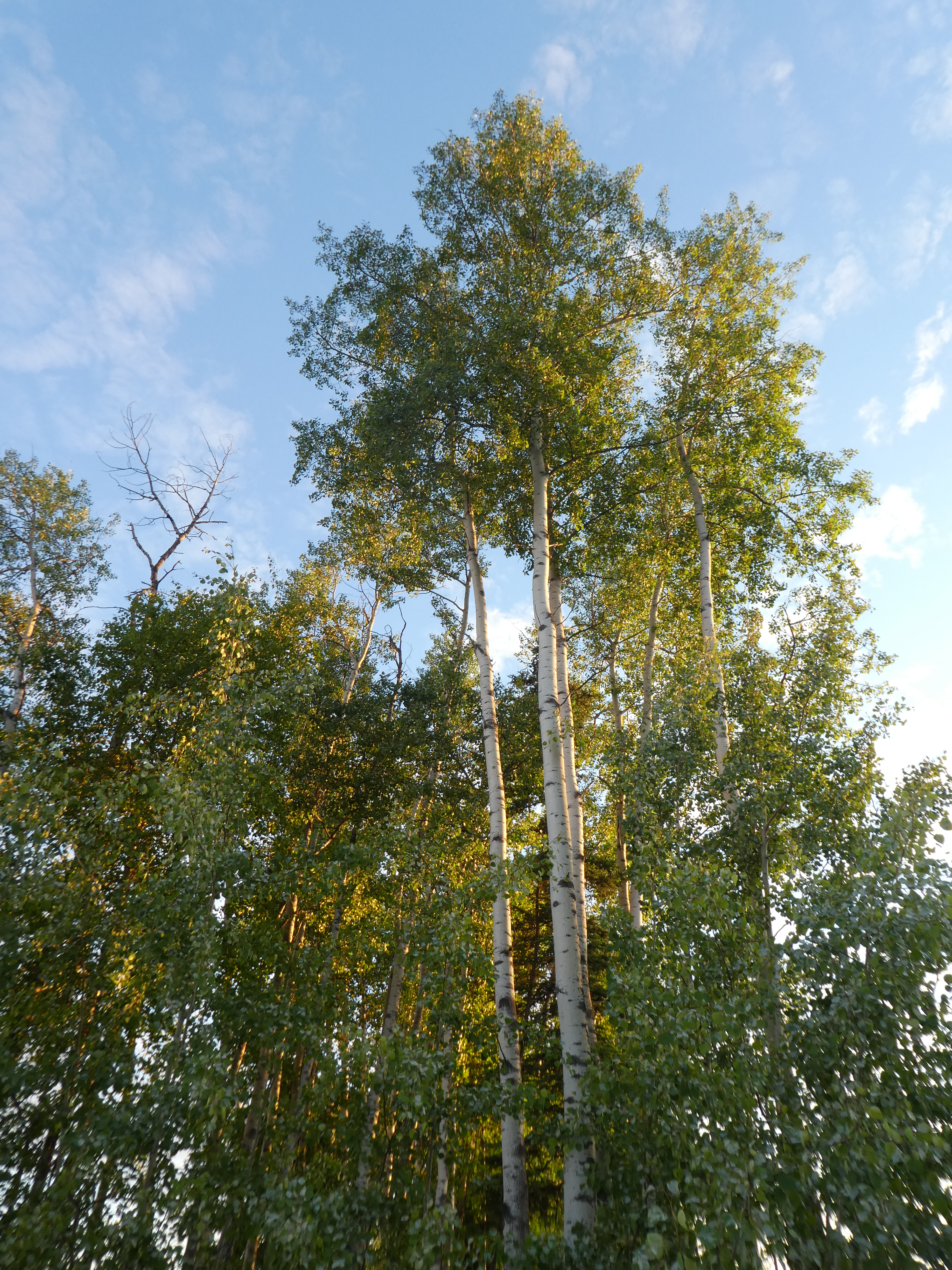 Mature trembling aspen trees (Populus tremuloides) with young regeneration in foreground. Picture taken in Fairbanks, Alaska.